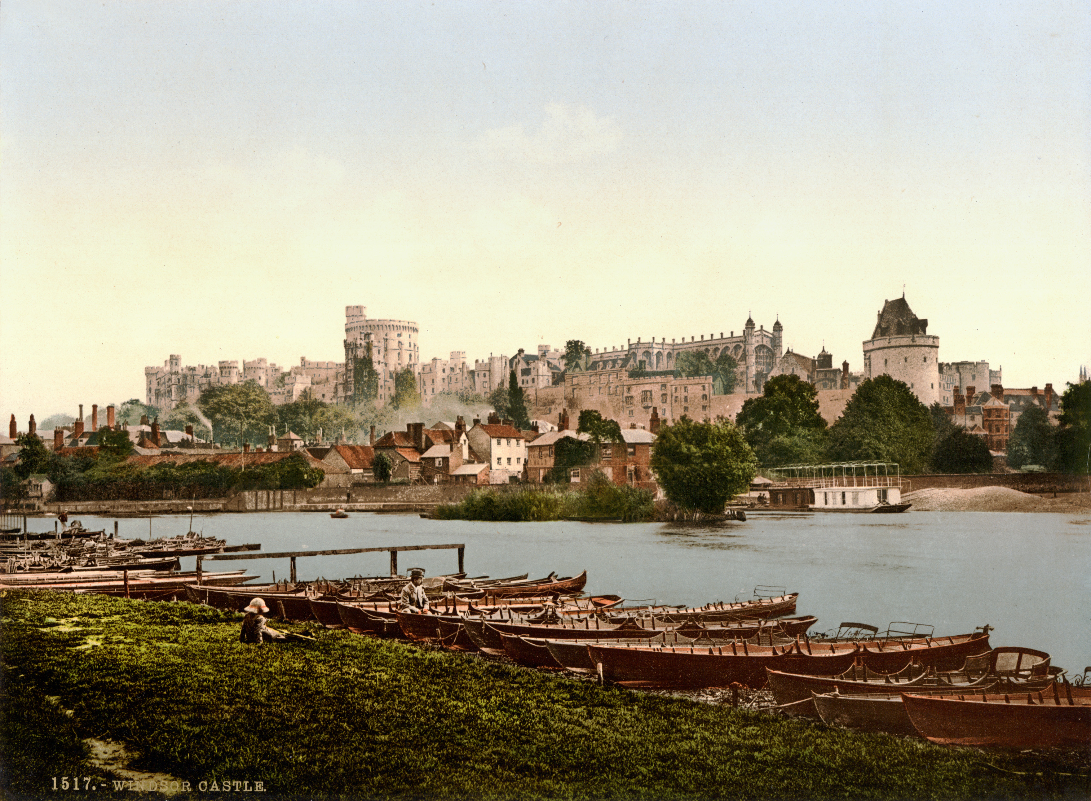 Photochrom print by Photoglob Zürich, between 1890 and 1900. From the Photochrom Prints Collection at the Library of Congress More photochroms from England | More photochrom prints [PD] This picture is in the public domain